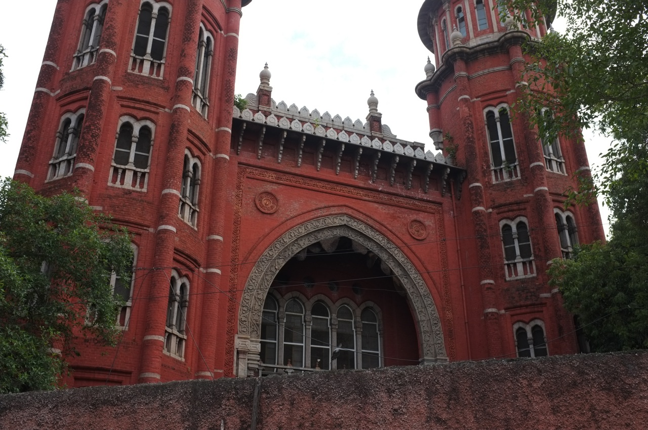 Madras High Court